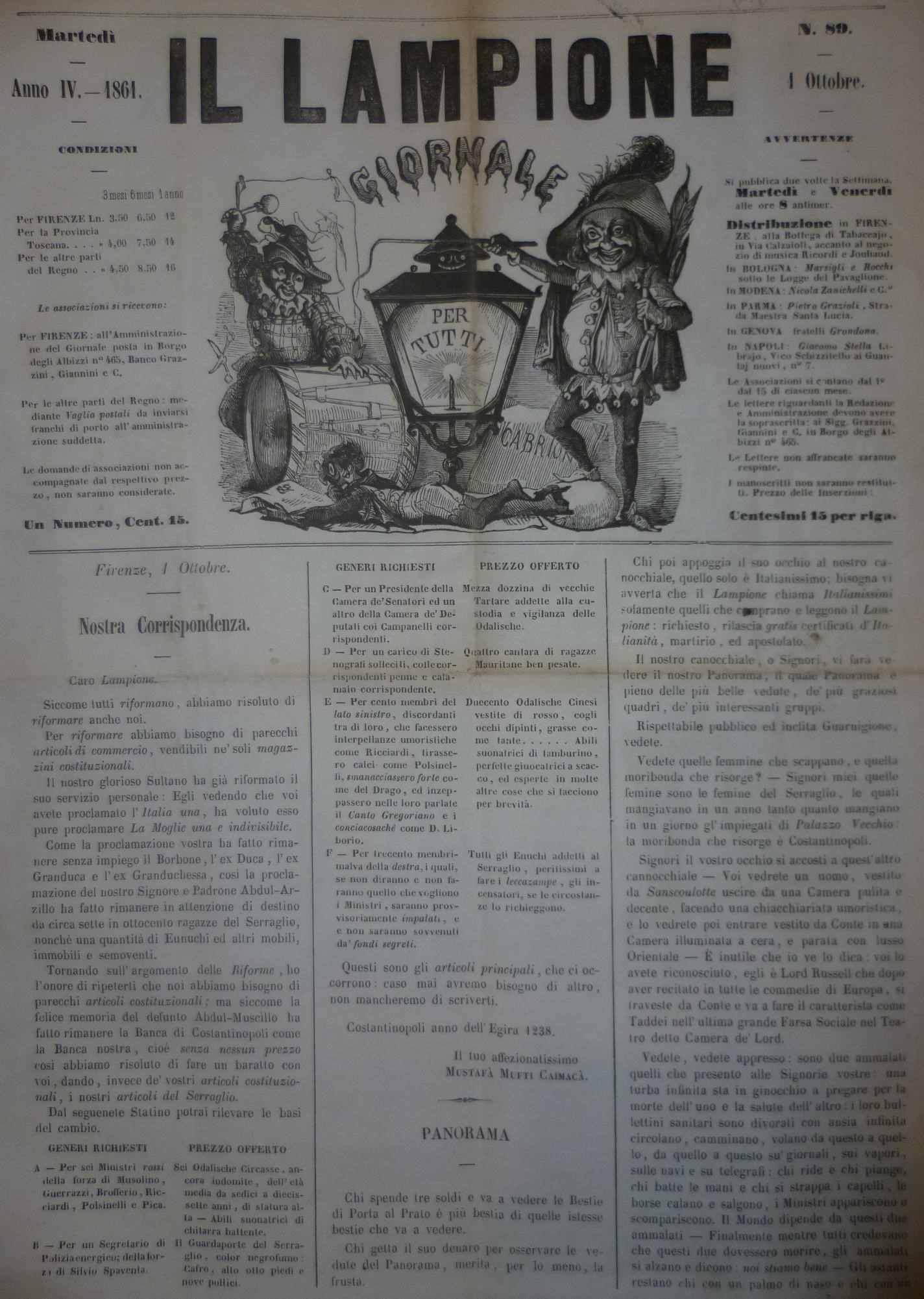 news paper Il Lampione, first page, publied by Carlo Collodi 1864